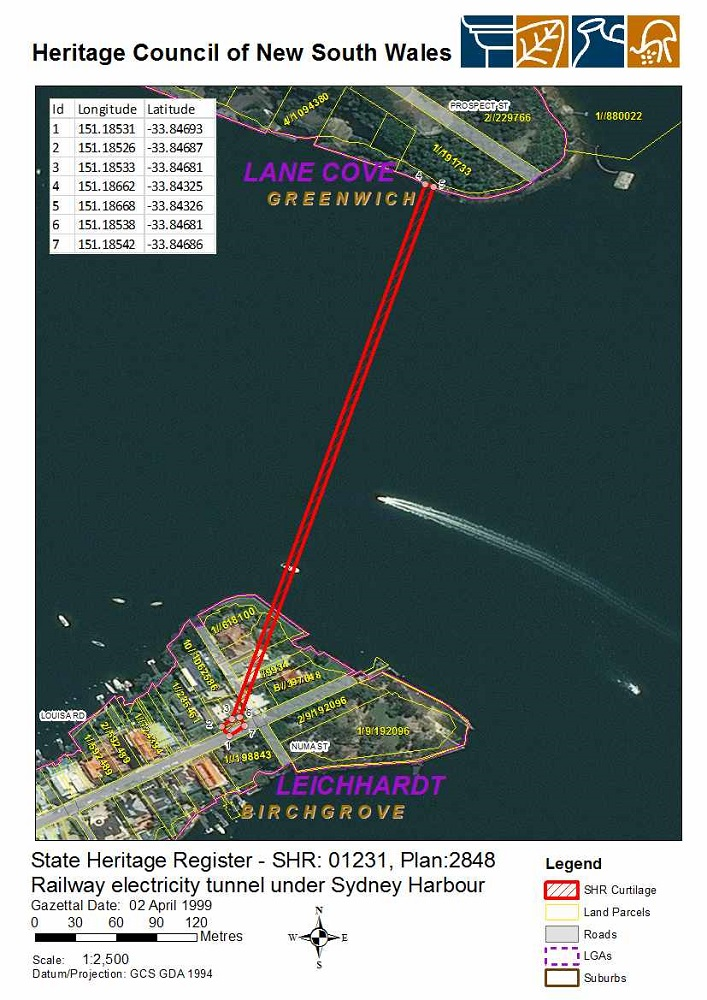 Sydney Harbour railway electricity tunnel: SHR Plan No 2848